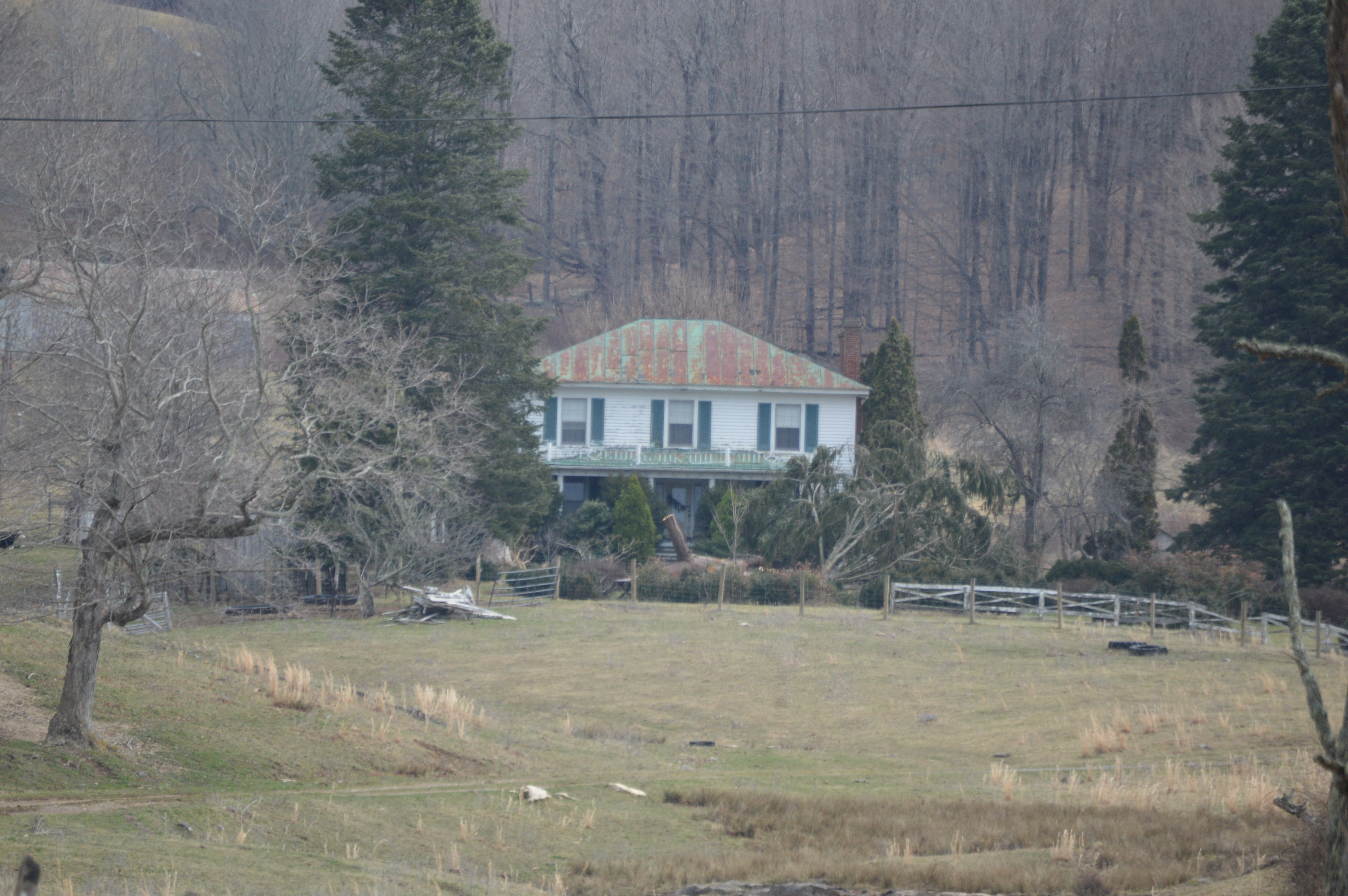 Front of the Mountain Glen farmhouse, located at the end of Poor Valley Road southeast of Ceres in Bland County, Virginia, United States. Built in the 1850s, it is listed on the National Register of Historic Places.